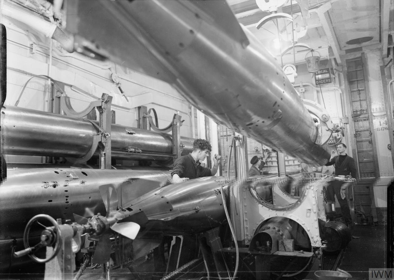 IWM caption : "In this rare view of the torpedo room of HMS RODNEY, one of her 24.5 inch torpedo tubes is being loaded. Another is being lowered onto the torpedo chocks."